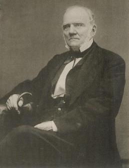 Orville Robinson, Congressman from New York